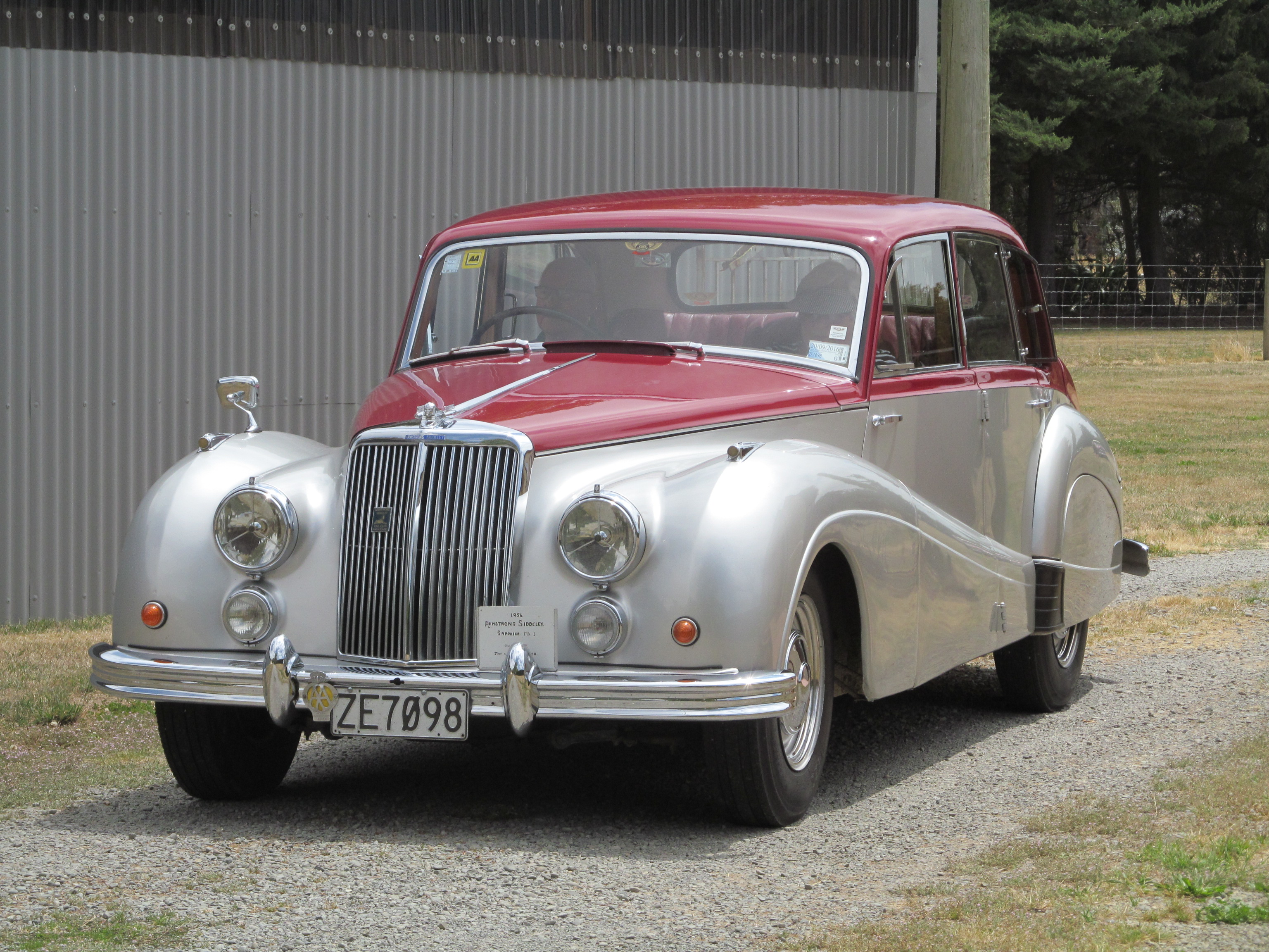 1954 Armstrong Siddeley Sapphire Mark I